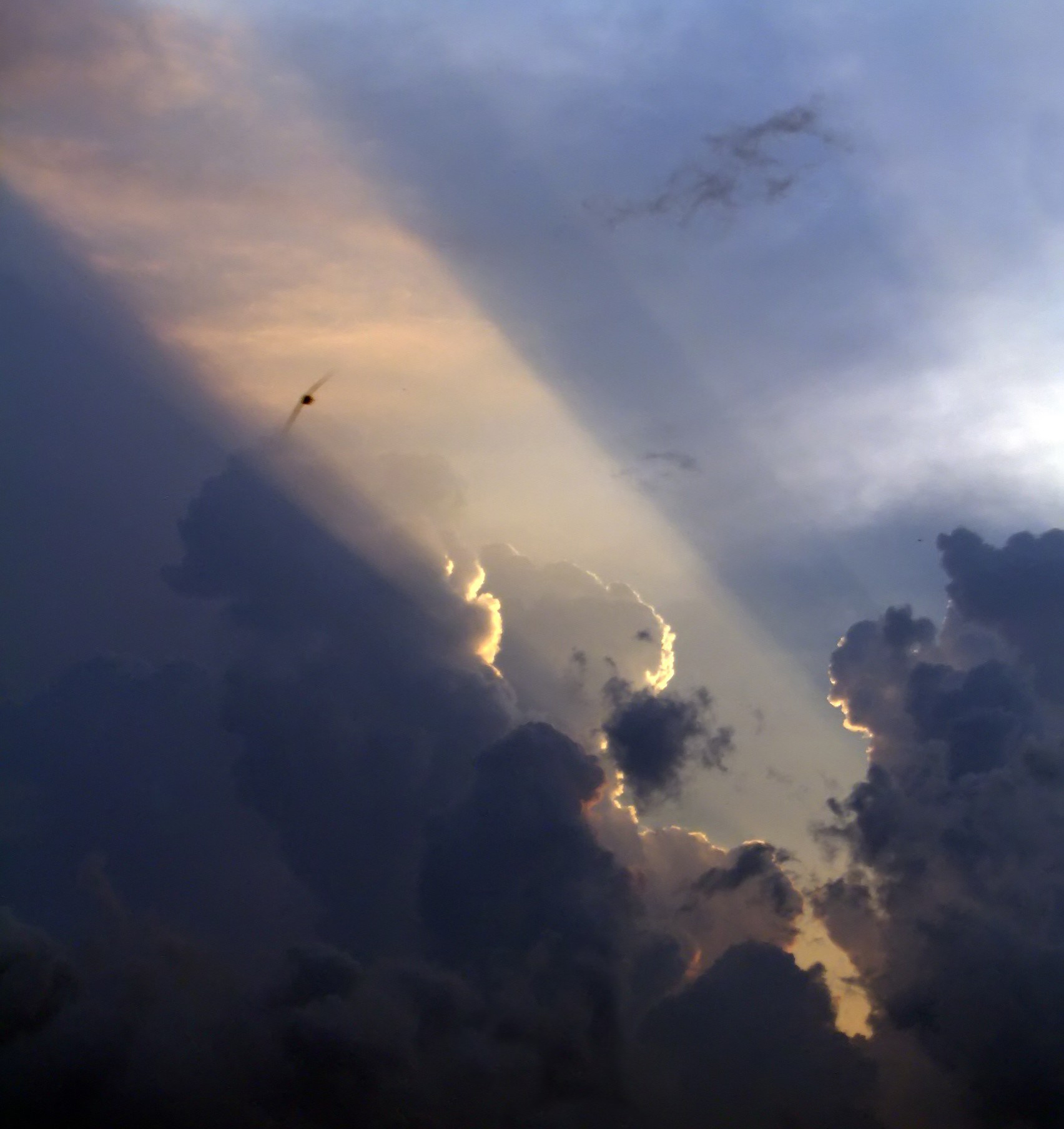 Sunset over the Vercors mountains, seen from Grenoble (+ a swift passing by).